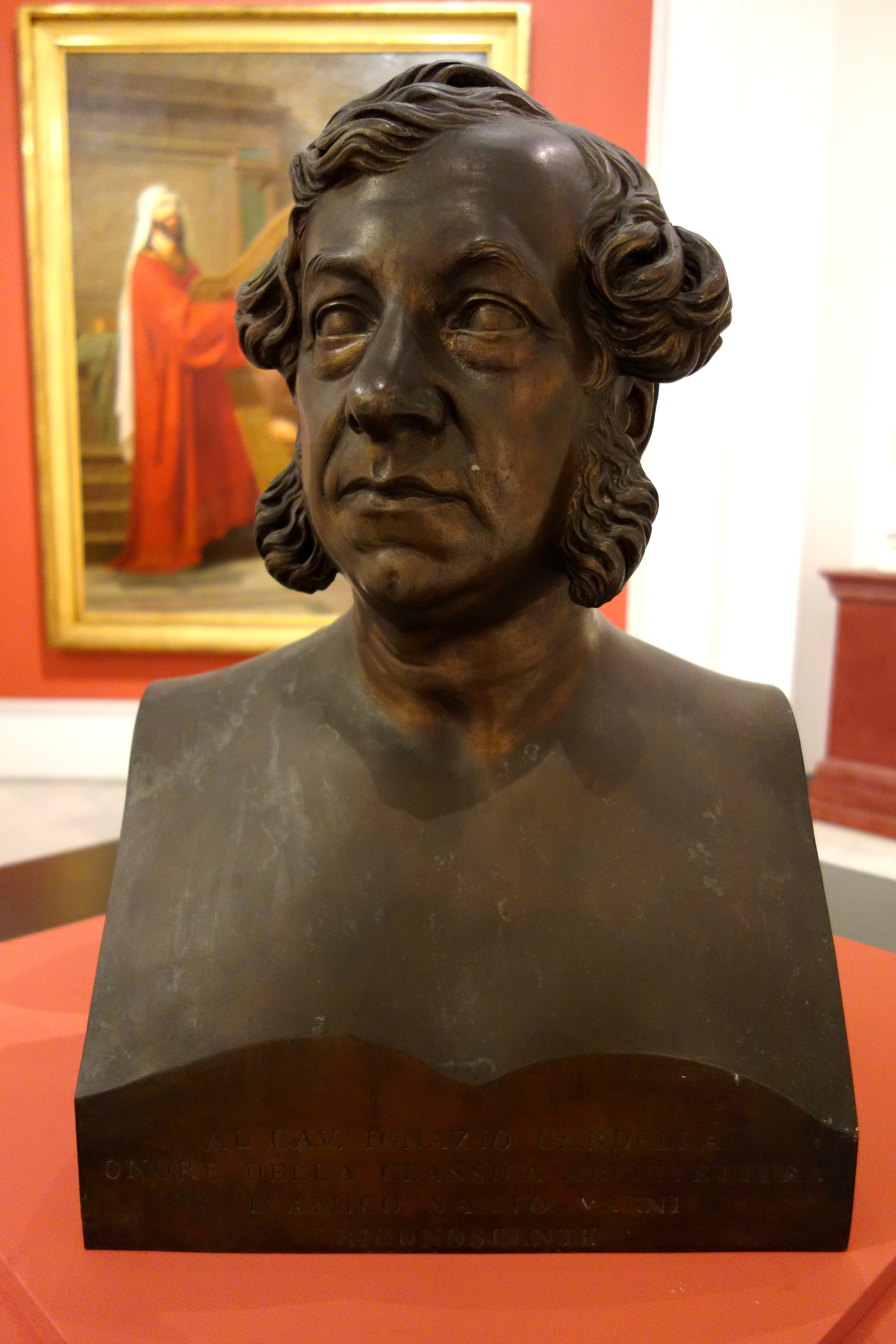 Exhibit in the Accademia Ligustica di Belle Arti, Genoa, Italy. This artwork is old enough so that it is in the public domain.